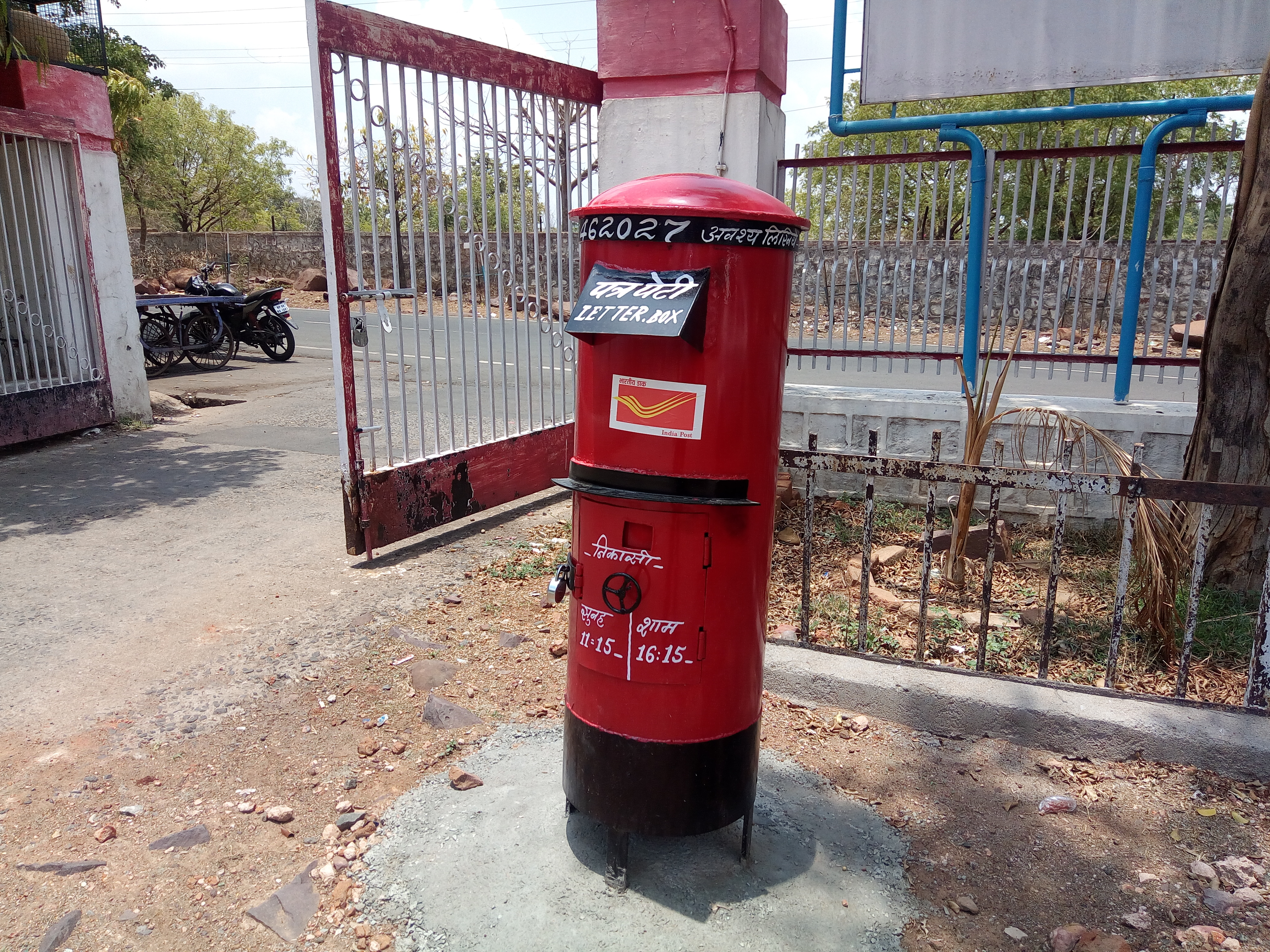 India Post letter box in Bhopal -1